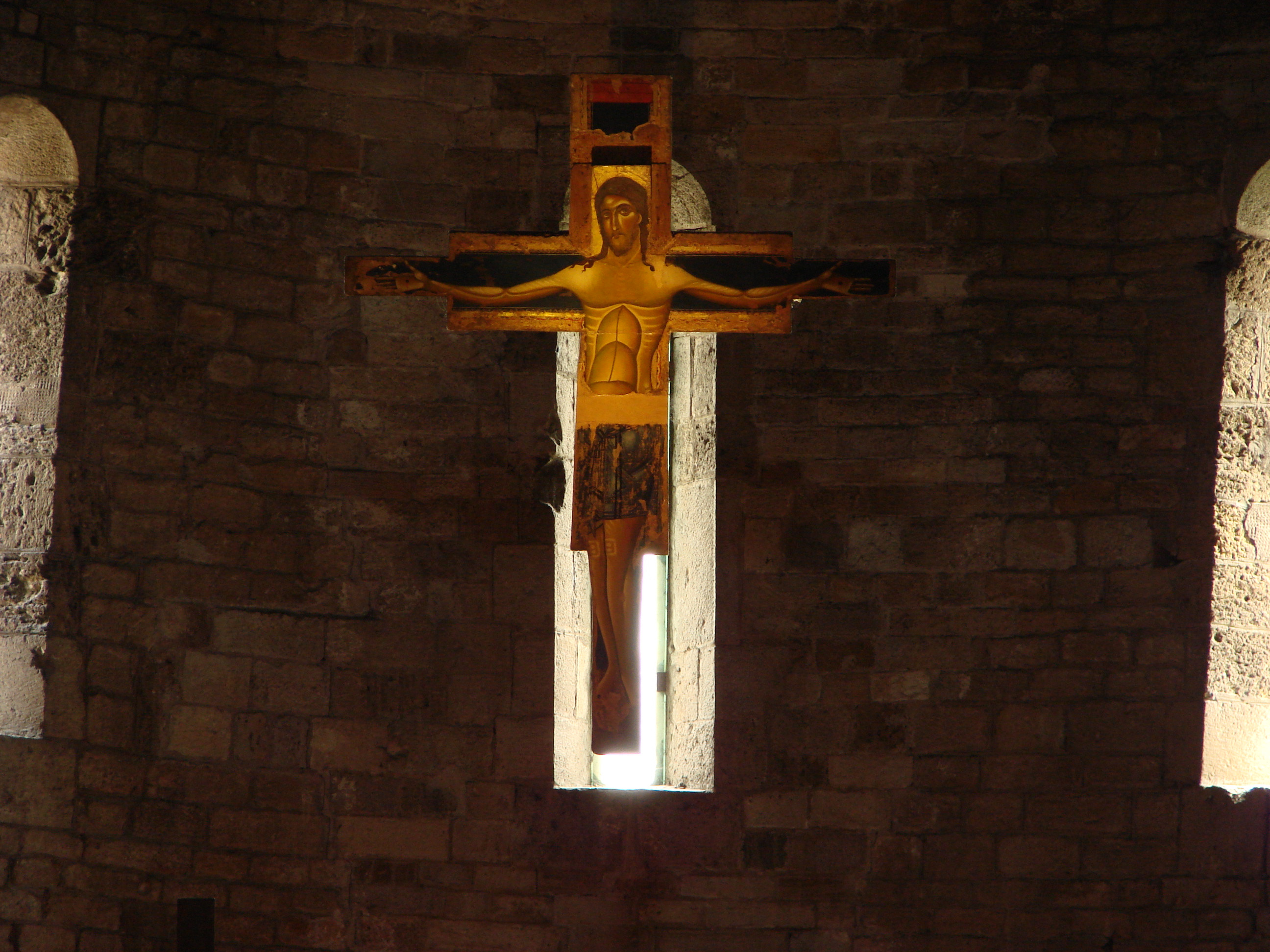 Church of San Michele degli Scalzi in Pisa - Christ Crucified (XIII century)